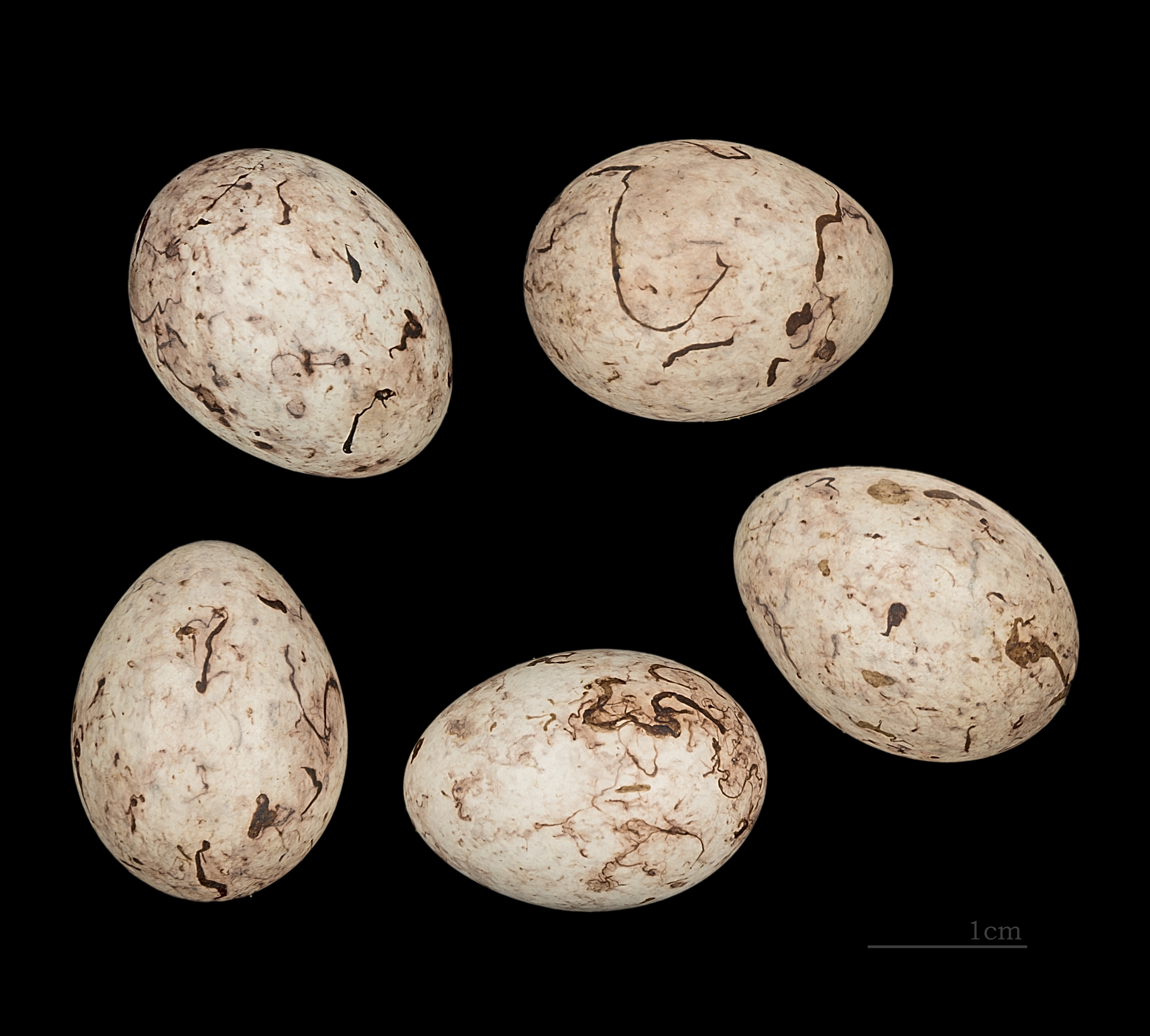 Egg of Pine Bunting. Collection of Jacques Perrin de Brichambaut.